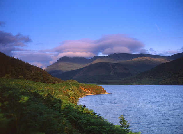 Ennerdale Water looking towards Pillar